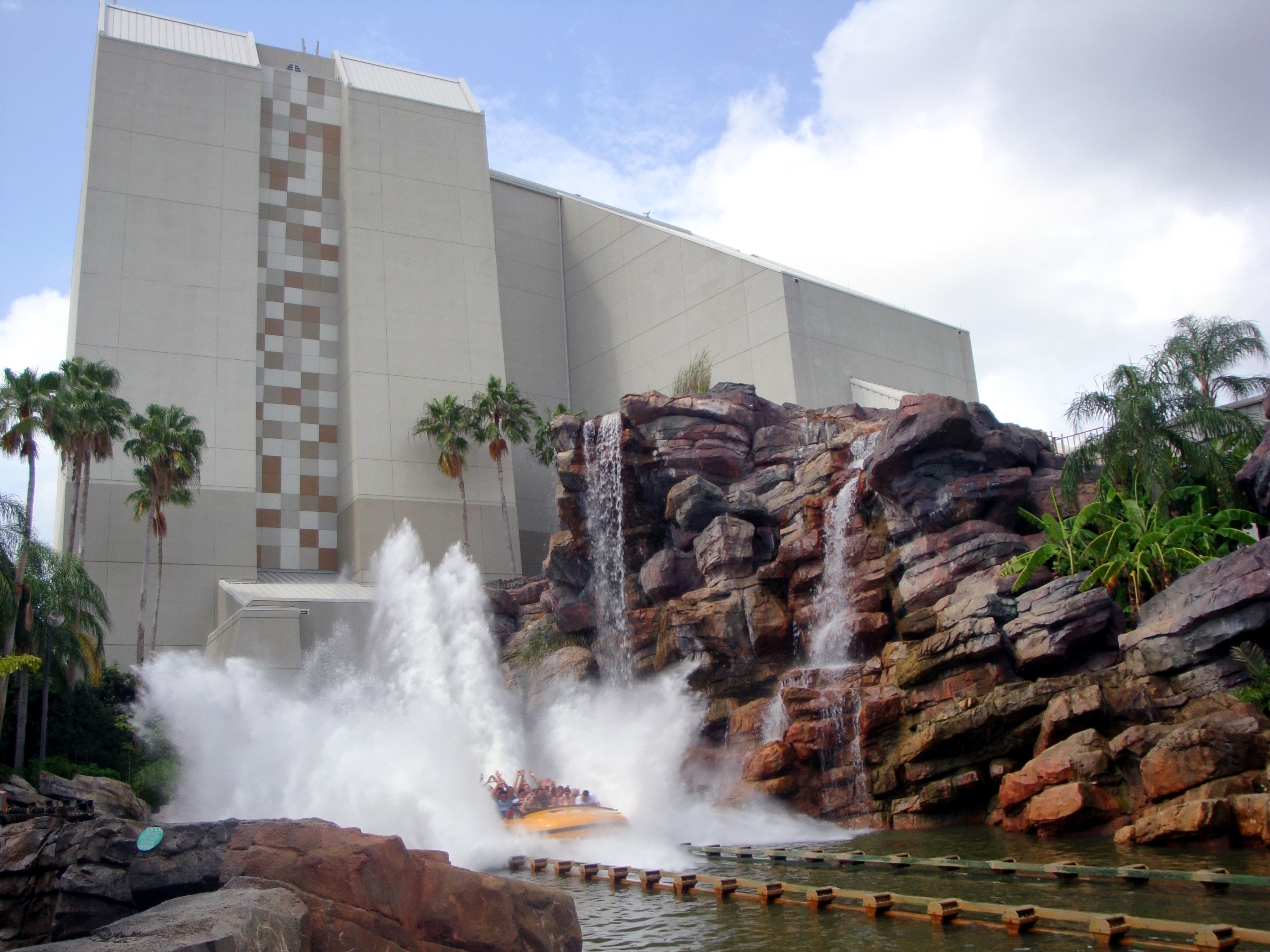 Jurasic park log flume ride